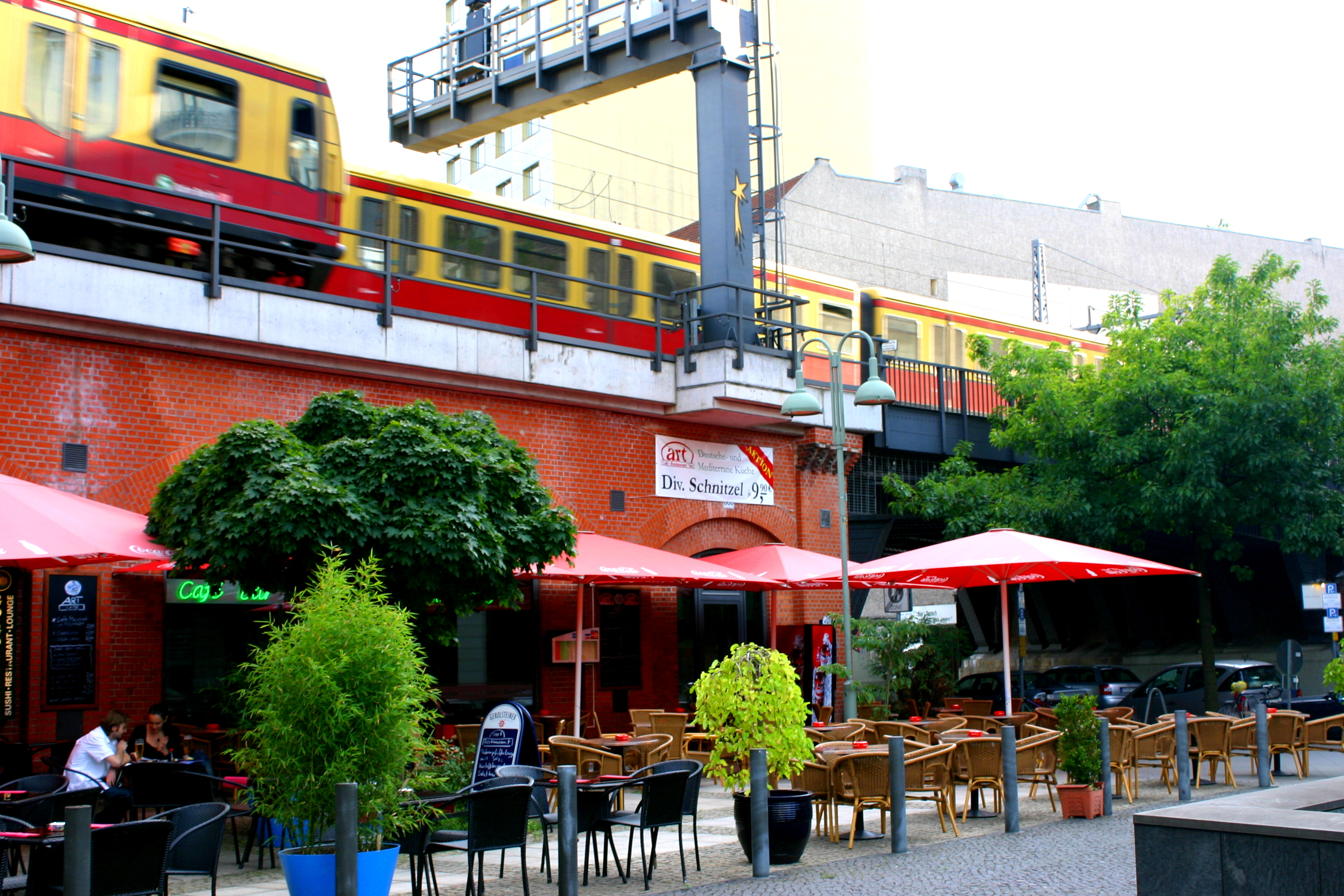 Railway-viaduct at fasanenstrasse in Berlin